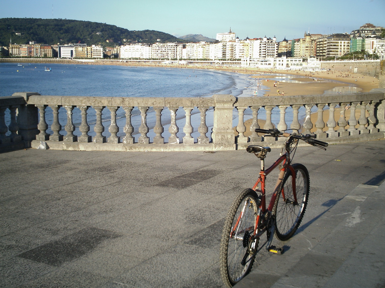 Donostia - Basque Country - Spain